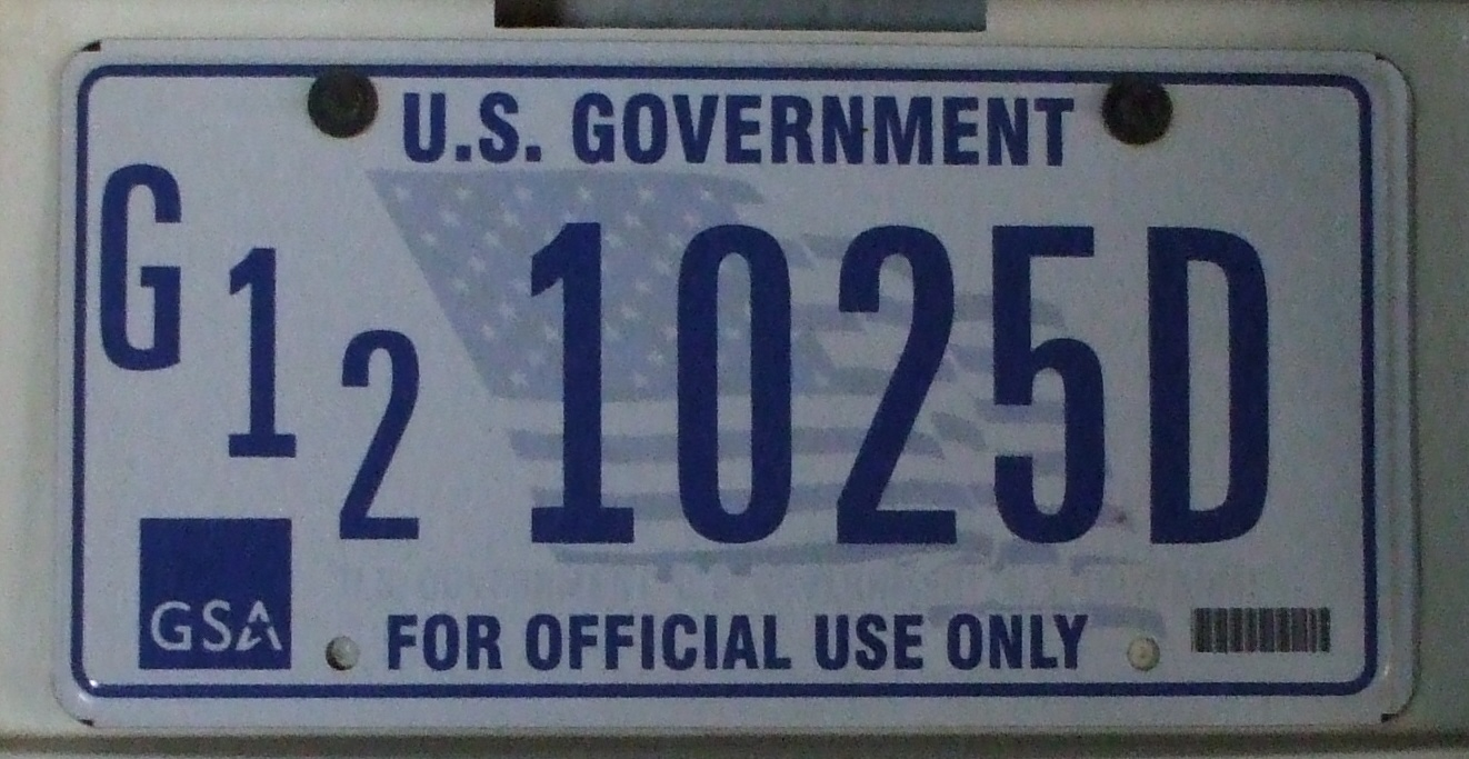 US Government Plate. A string of Military recruitment offices was nearby, so i'm assuming it's one of the recruiters that drove the car.